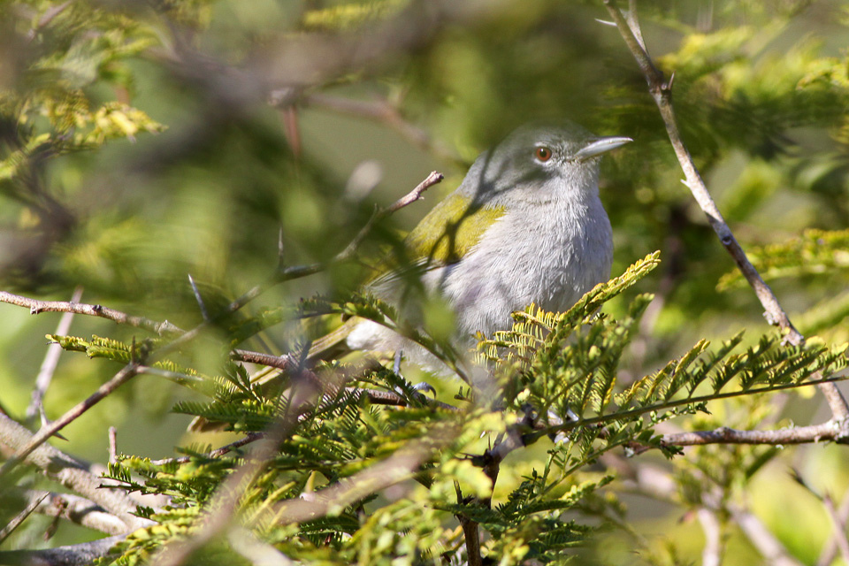 Sierra Baerucu National Park Mine road